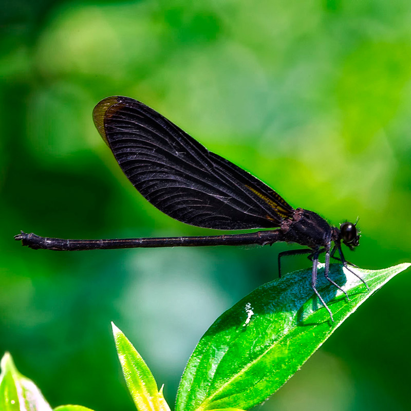 Euphaea masoni Selys, 1879 Sub-Order: ZYGOPTERA Super-Family: CALOPTERYGOIDEA Family: EUPHAEIDAE Nikon D700 Micro Nikkor 200/4 LAO D.P.R Vientiane Province 2009